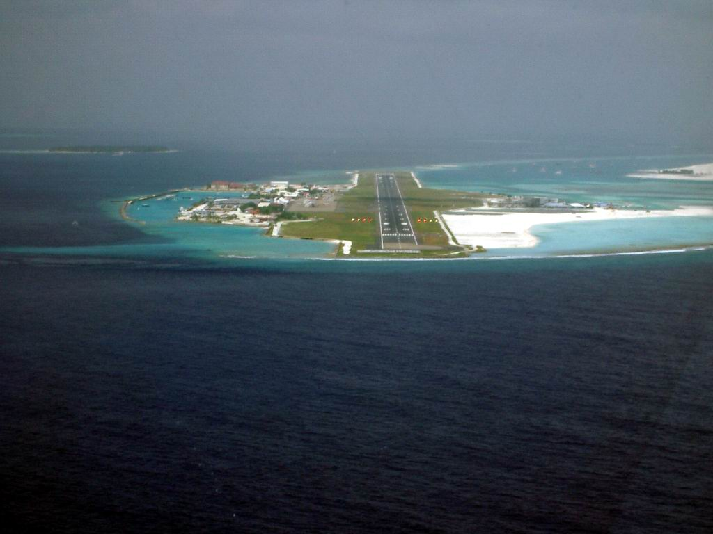 Aerial view of Malé International Airport (VRMM), in the direction of Runway 36